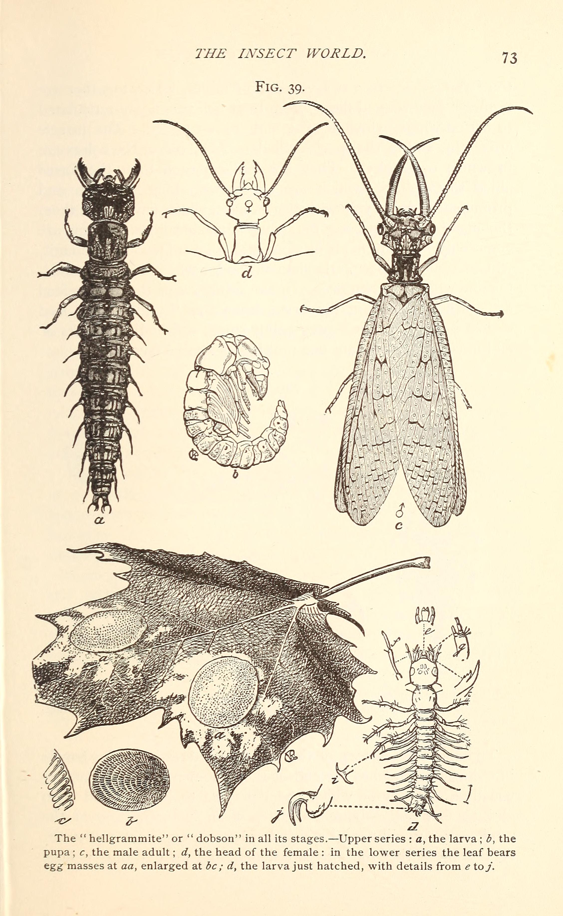 Title: Economic entomology for the farmer.. Year: 1896 (1890s) Authors: Smith, John B. (from old catalog) Subjects: Publisher: (n. p. ) Text Appearing Before Image: THE INSECT WORLD. 73 Fig. 39. Text Appearing After Image: The " hellgrammite" or " dobson" in all its stages.—Upper series : a, the larva; b, the pupa ; c, the male adult; d, the head of the female : in the lower series the leaf bears egg masses at aa, enlarged at be; d, the larva just hatched, with details from e to j.